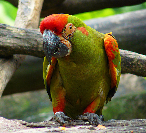 Red-fronted Macaw (Ara rubrogenys) at Jurong BirdPark, Singapore.